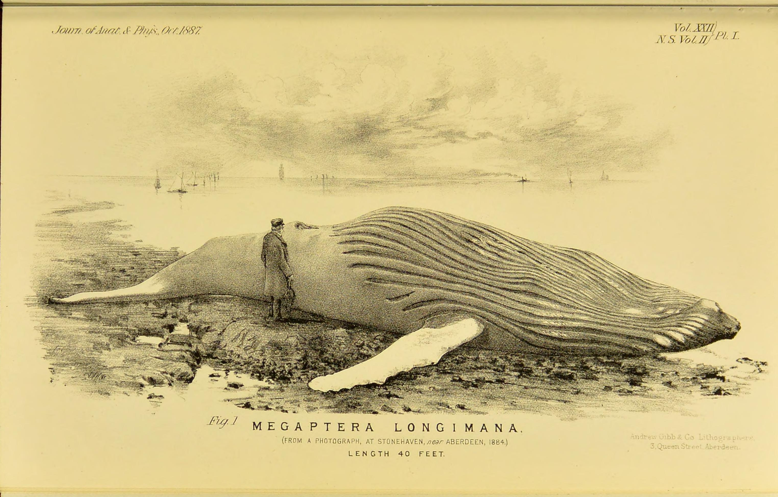 The Tay Whale, Megaptera Longimana